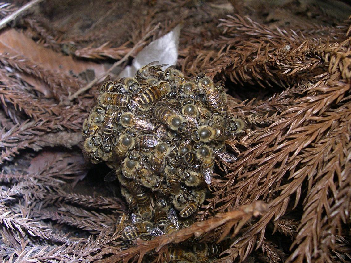 The Japanese honeybees (Apis cerana japonica) forming a "bee ball" in which two hornets (Vespa simillima xanthoptera) are engulfed and being heated. Yokohama, Kanagawa prefecture, Honshu Island,Japan.